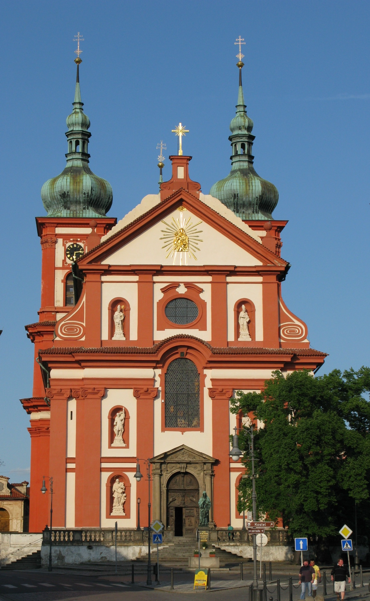 Church of the Assumption of the Virgin Mary in Stara Boleslav